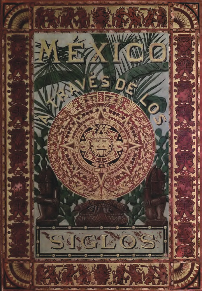 Front cover of the historic document Mexico a través de los Siglos, edited around 1890